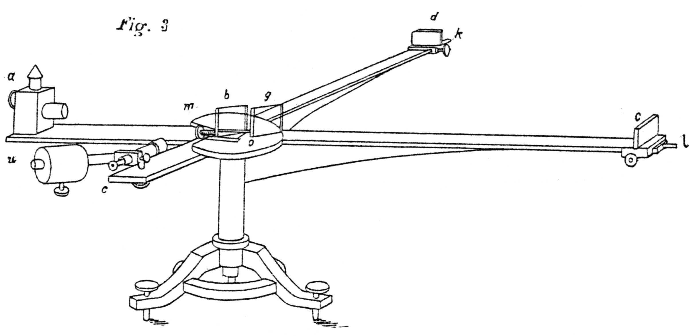 Michelson interferometer, perspective illustration